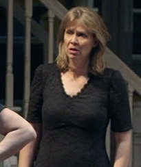 Steppenwolf Theatre ensemble members Rondi Reed (left) and Amy Morton in August: Osage County by Tracy Letts, directed by Anna D. Shapiro.